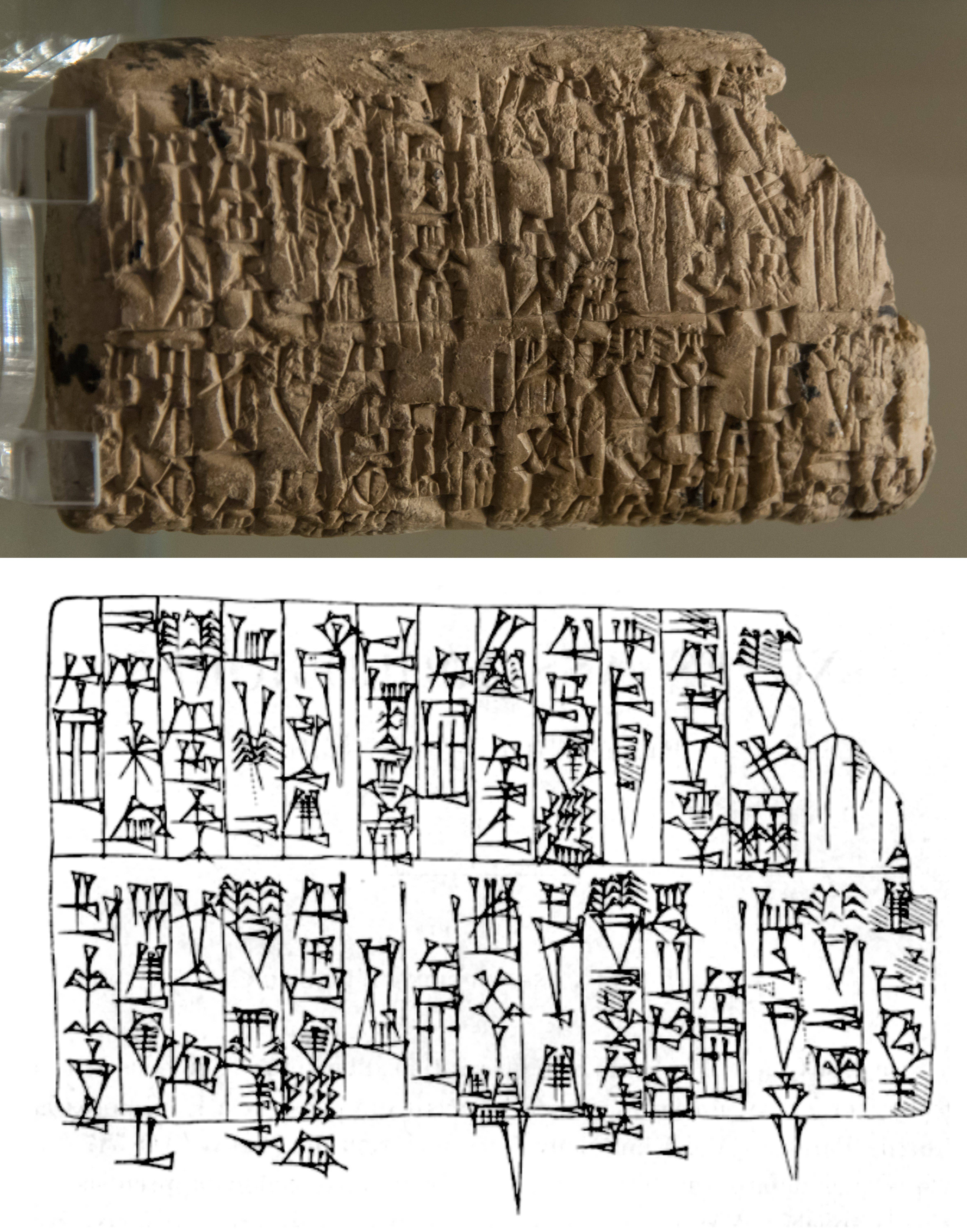 AO 5476 (front, with transcription)